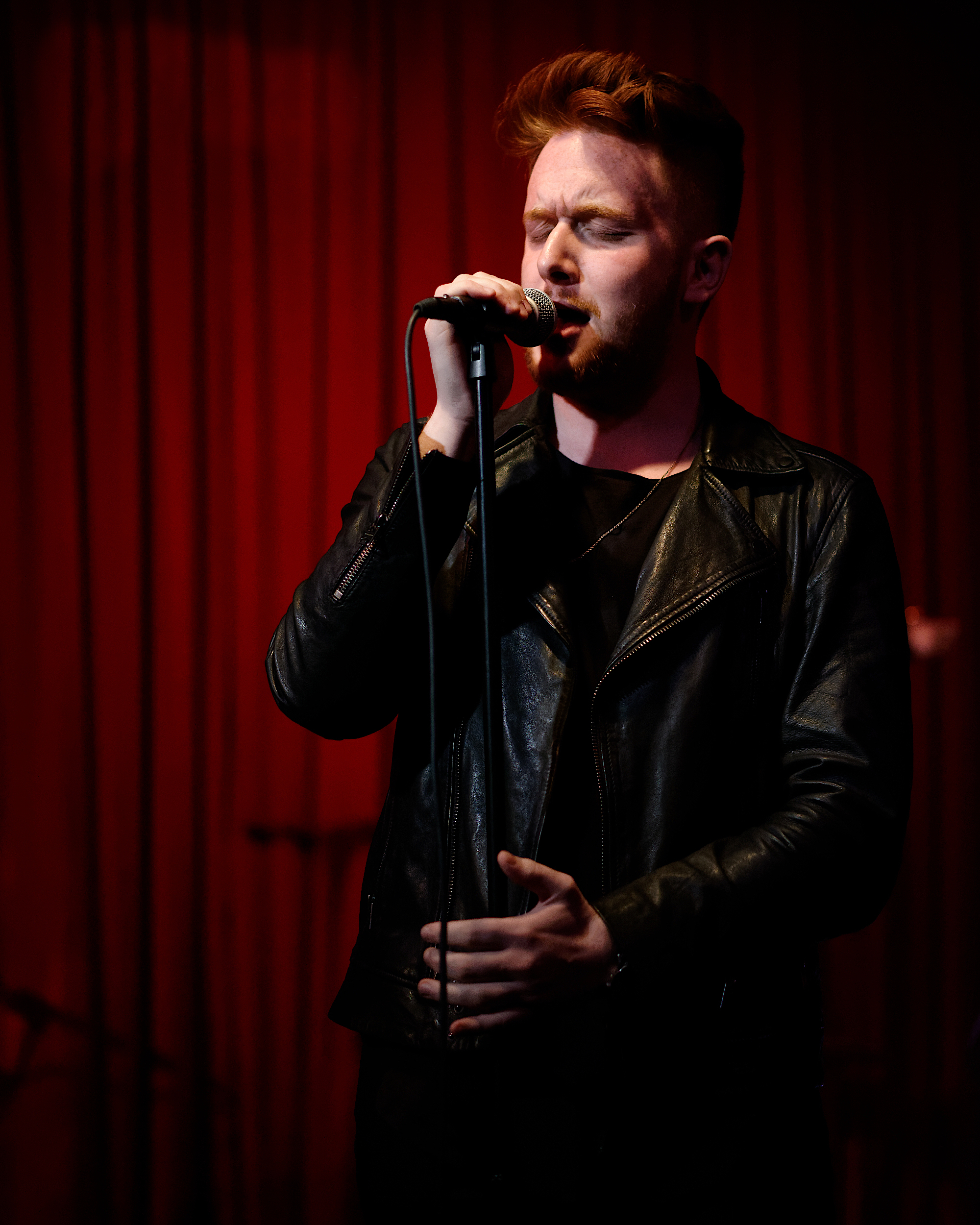 Jeffery Austin at the Hotel Cafe